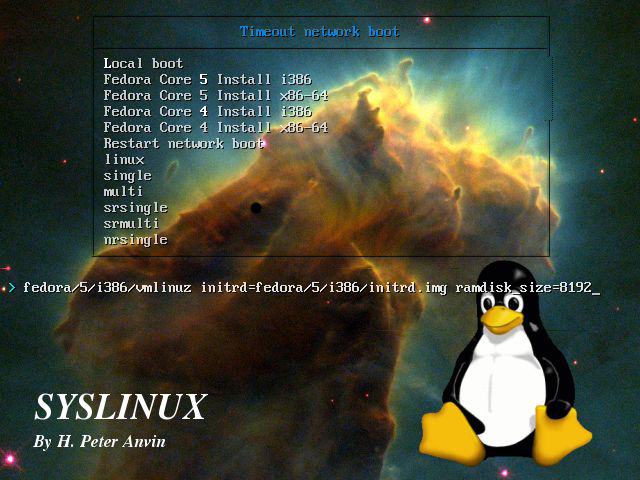 Screen shot of SYSLINUX in operation. Author: H. Peter Anvin (myself); includes an image created by the United States Government (NASA/Hubble Space Telescope.) I relinquish any rights owned by me to the public domain; my understanding is that the source image, by being a work of the United States Government, is also in the public domain. Source URL [1].